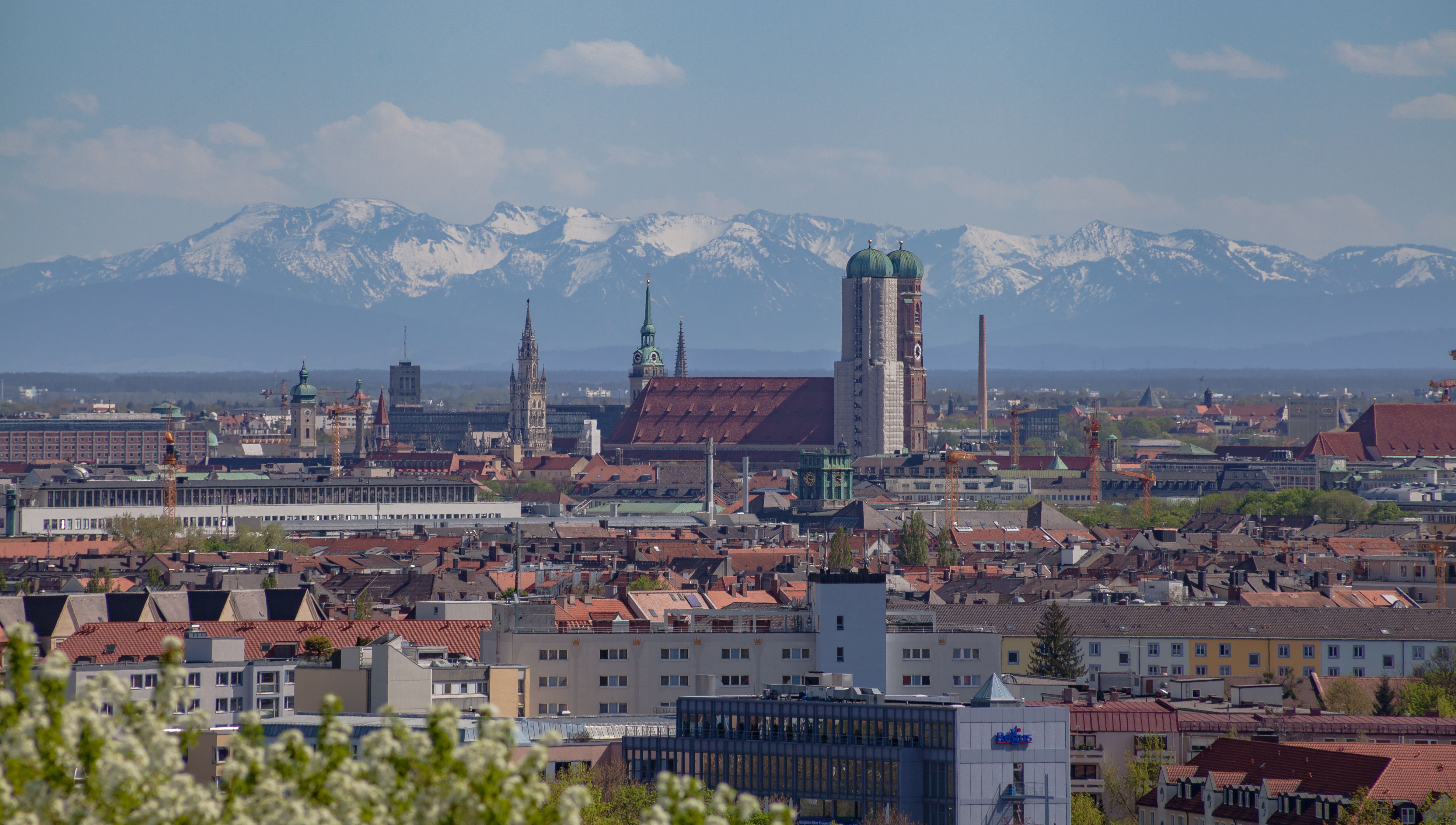 Panoramic view of Munich from Olympiaturm, Germany